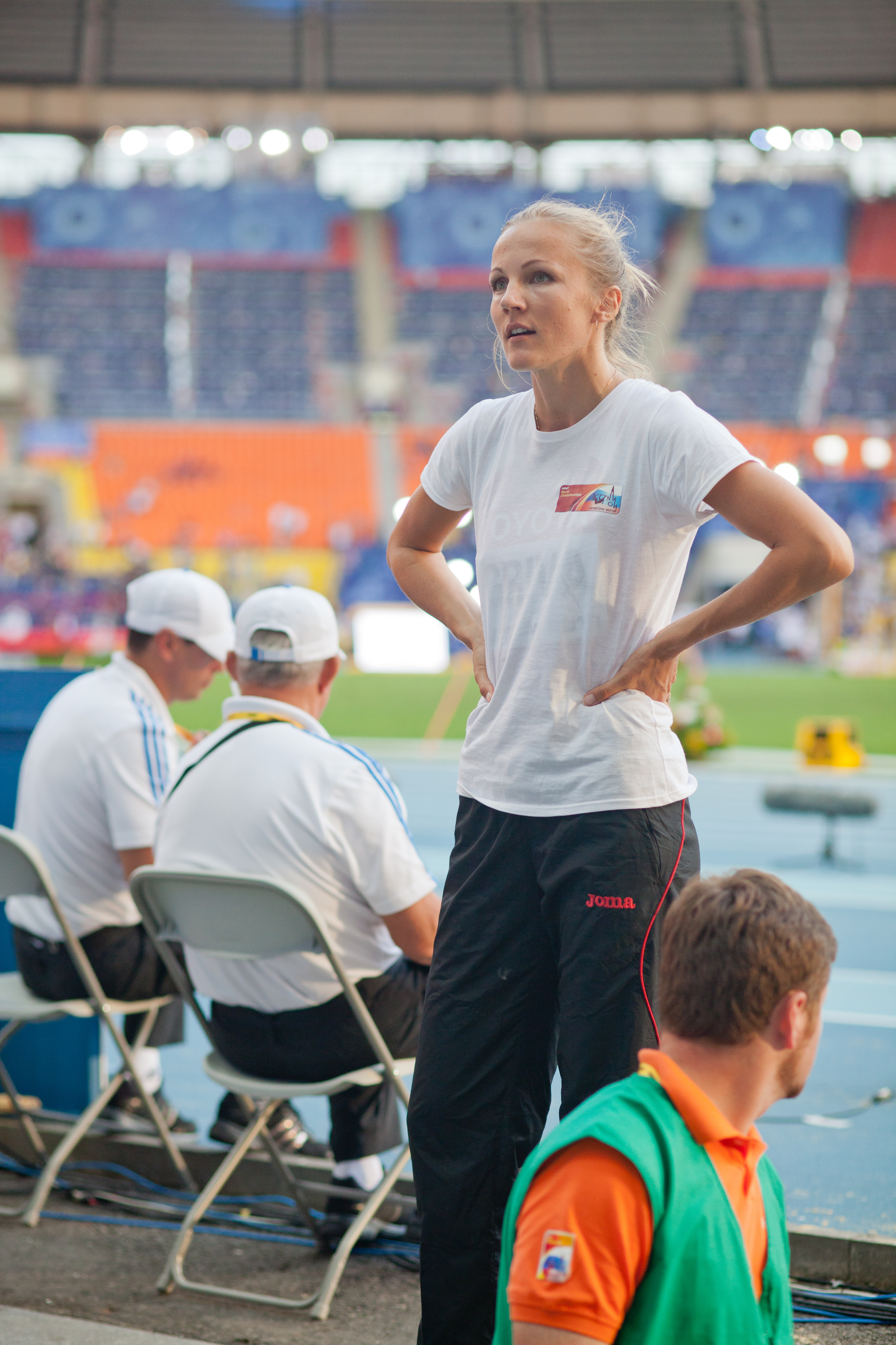 Lauma Grīva during 2013 World Championships in Athletics in Moscow.